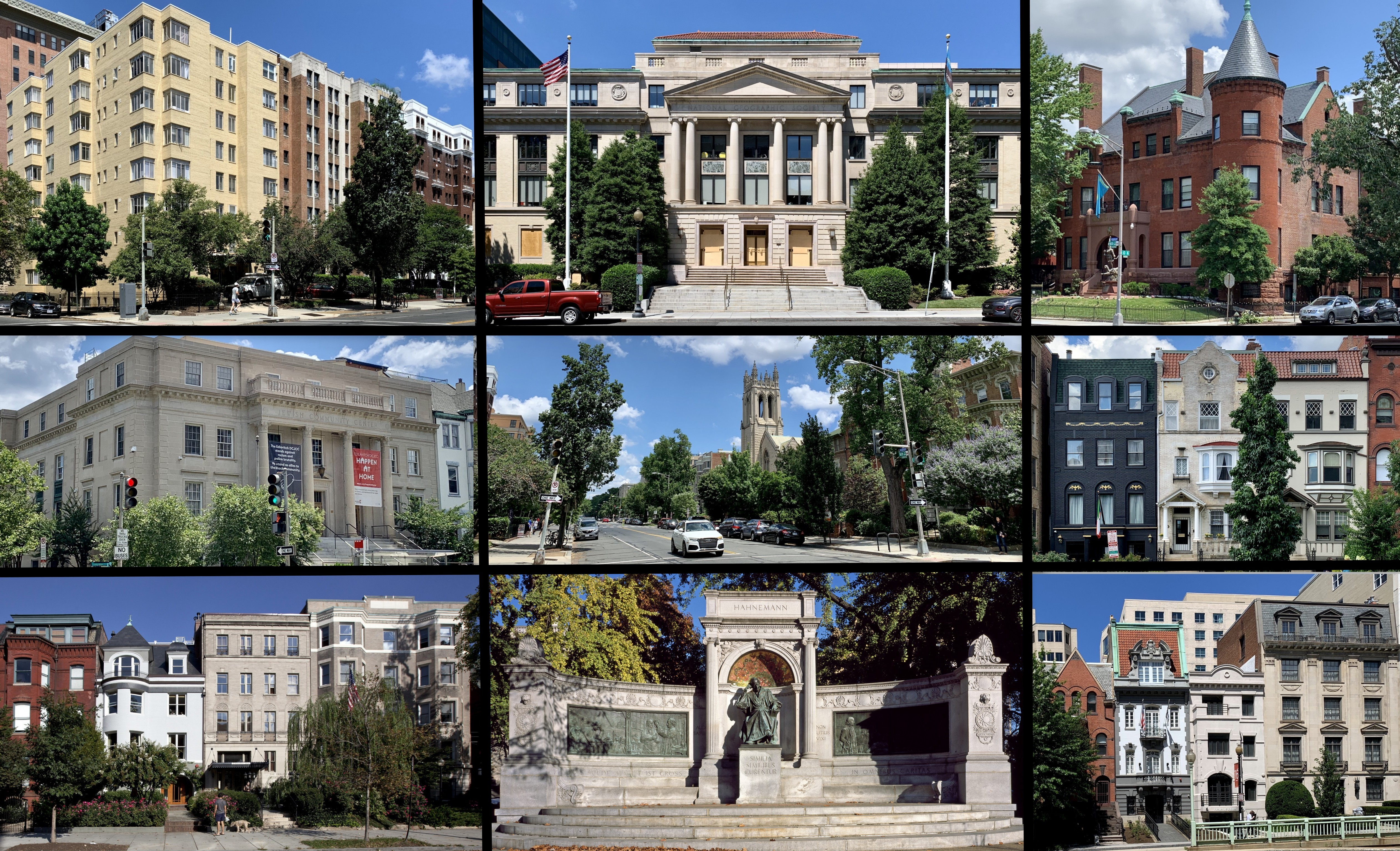 Montage of contributing properties to the Sixteenth Street Historic District in Washington, D.C. From left to right on each row: first row is apartment buildings at 1600-1616 16th Street NW, National Geographic Society's Administration Building at 1156 16th Street NW, and Embassy of Kazakhstan at 1401 16th Street NW; second row is Edlavitch Jewish Community Center at 1529 16th Street NW, facing north at the intersection of 16th and Q Streets NW, and row houses at 2020-2024 16th Street NW including the Embassy of Equatorial Guinea; third row is apartment buildings and row houses at 1625-1631 16th Street NW, Samuel Hahnemann Monument, and apartment buildings and row houses at 1212-1222 16th Street NW.